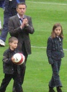 Portuguese football (soccer) manager José Mourinho with his children